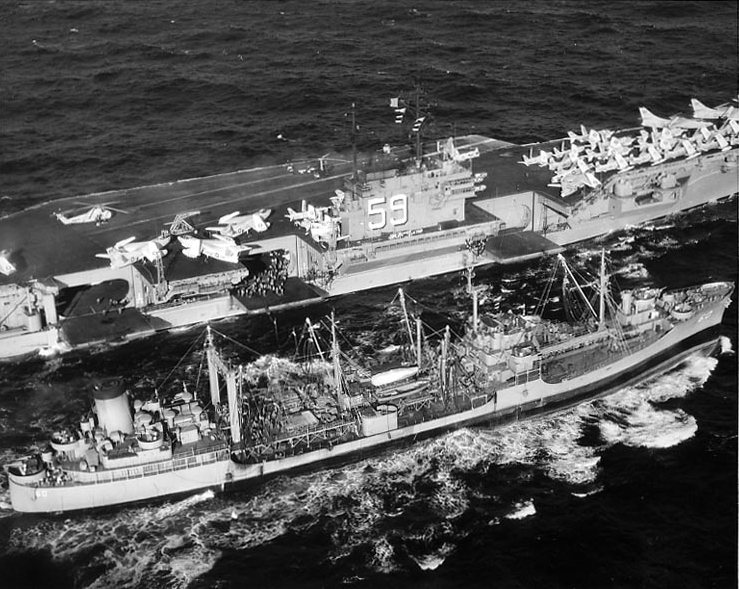 The U.S. Navy fleet oiler USS Nantahala (AO-60) refueling the aircraft carrier USS Forrestal (CVA-59) in the Atlantic, during NATO Exercise "Strikeback", 22 September 1957. Note the various items on the oiler's cargo deck, among them a Jeep and a pickup truck.